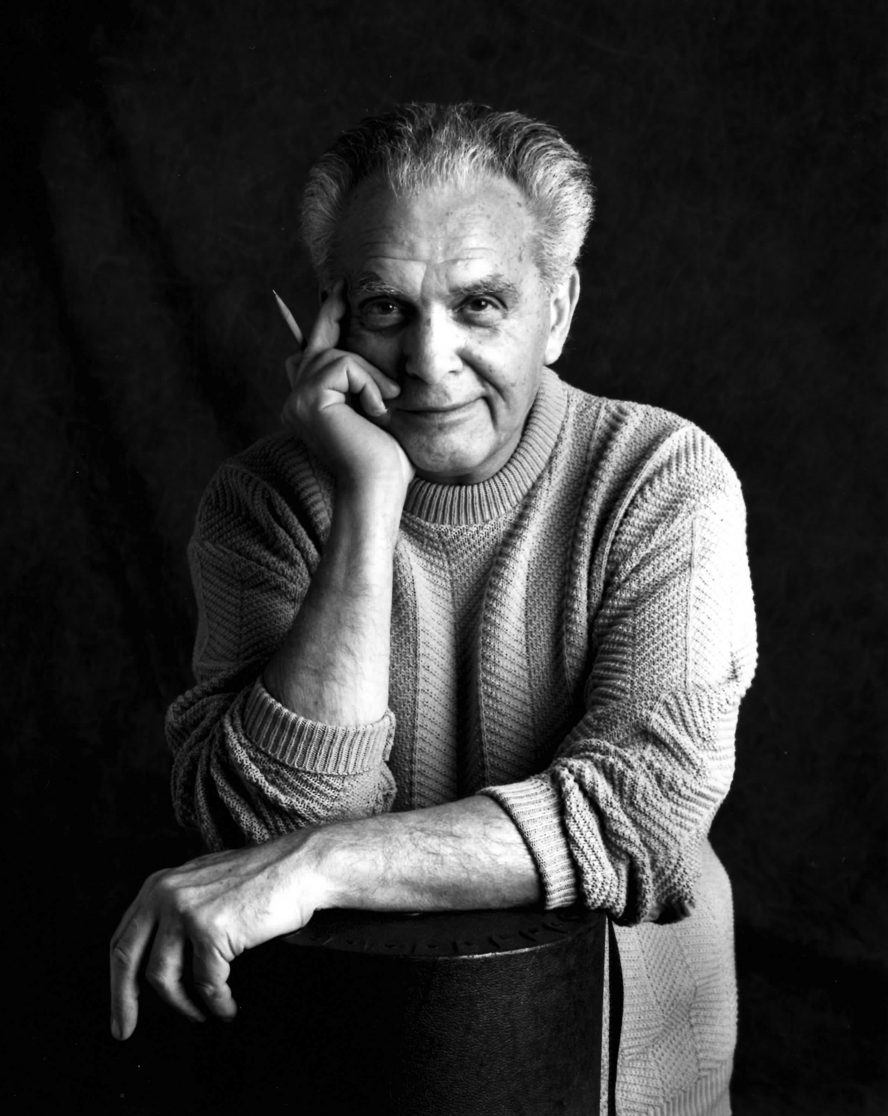 Photo of Jack Kirby taken by Susan Skaar during a session in the studio at Jack's home in Thousand Oaks, CA. The photos were later published in The Art of Jack Kirby (Blue Rose Press, 1993).